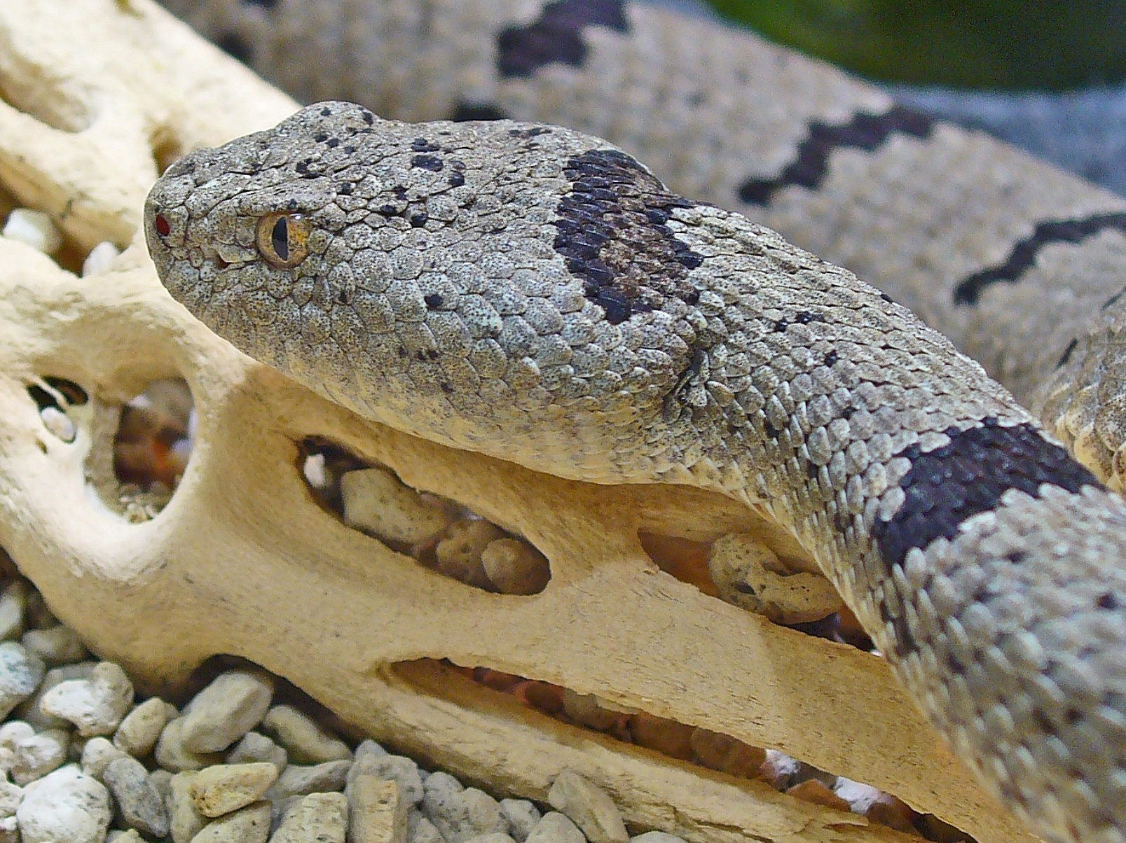 Crotalus lepidus klauberi, Viperidae, Banded rock rattlesnake; Staatliches Museum für Naturkunde Karlsruhe, Germany. The venom is used in homeopathy as remedy: Crotalus lepidus (Crot-l.)